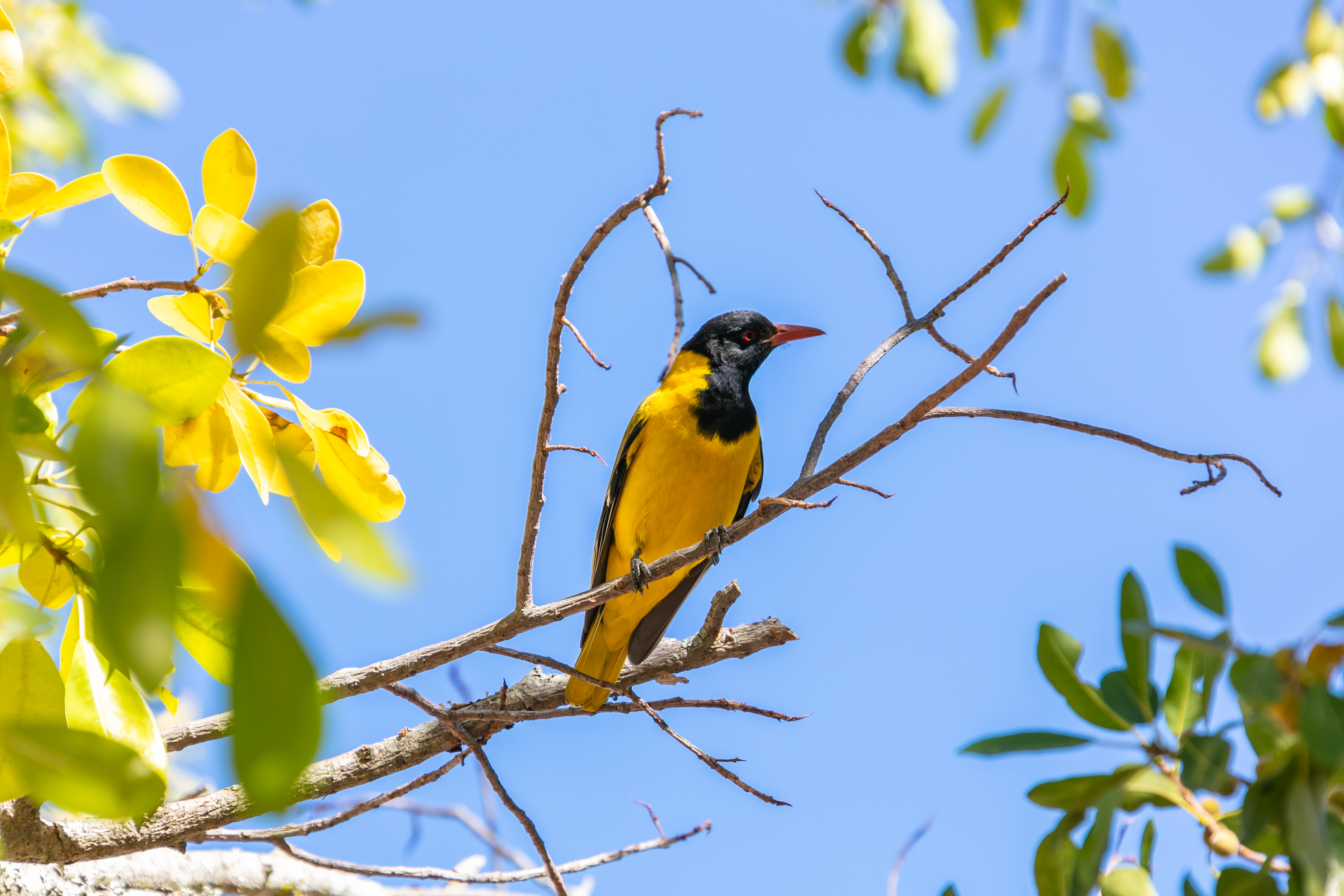 Black-headed oriole (Oriolus larvatus), Kruger National Park, South Africa